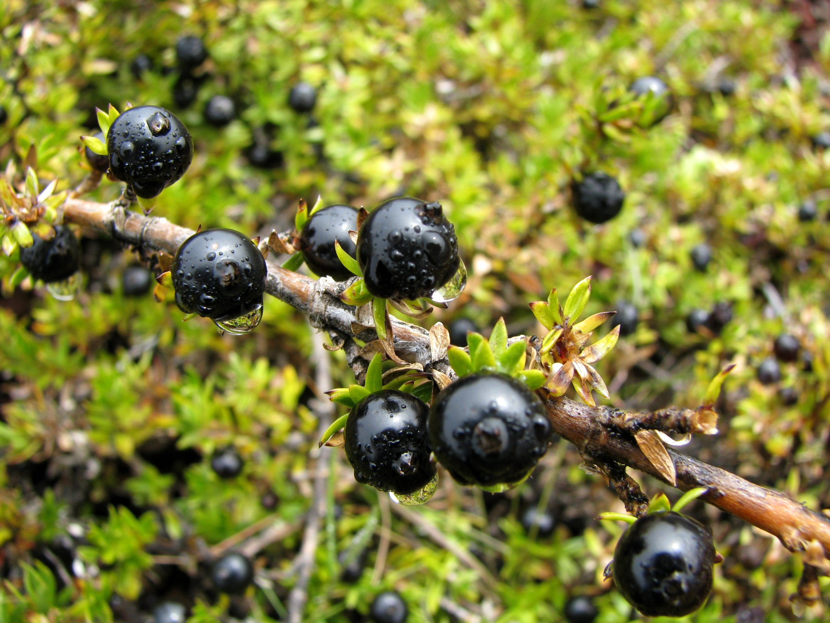 Kūkaenēnē, ʻAiakanēnē or Black-fruited coprosma Rubiaceae Endemic to the Hawaiian Islands Haleakalā Nat. Park, East Maui NPH00008